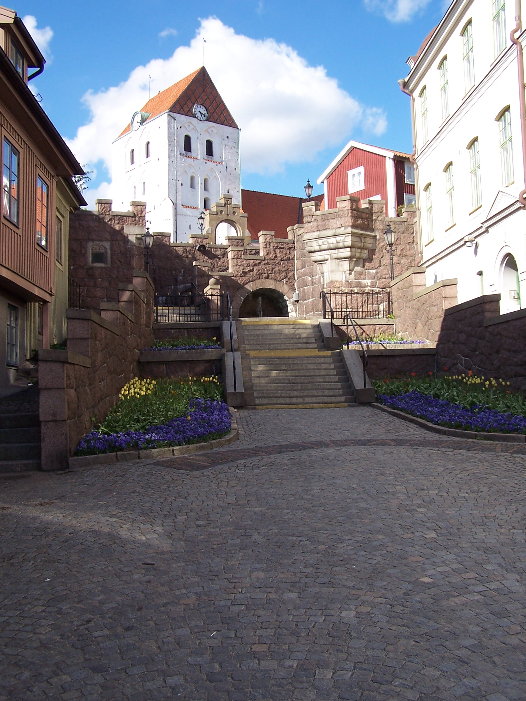 Munktrappan (Monk steps) from the town square up to Heliga kors kyrka in Ronneby.